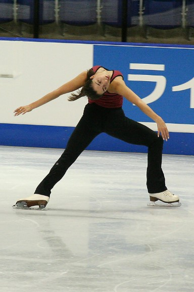 Tuğba Karademir performs an Ina Bauer at the 2006 Skate Canada International.